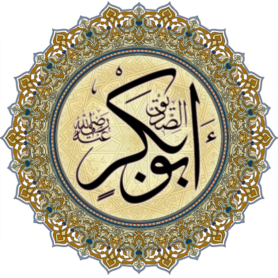 Name of Abu Bakr in Arabic calligraphy.